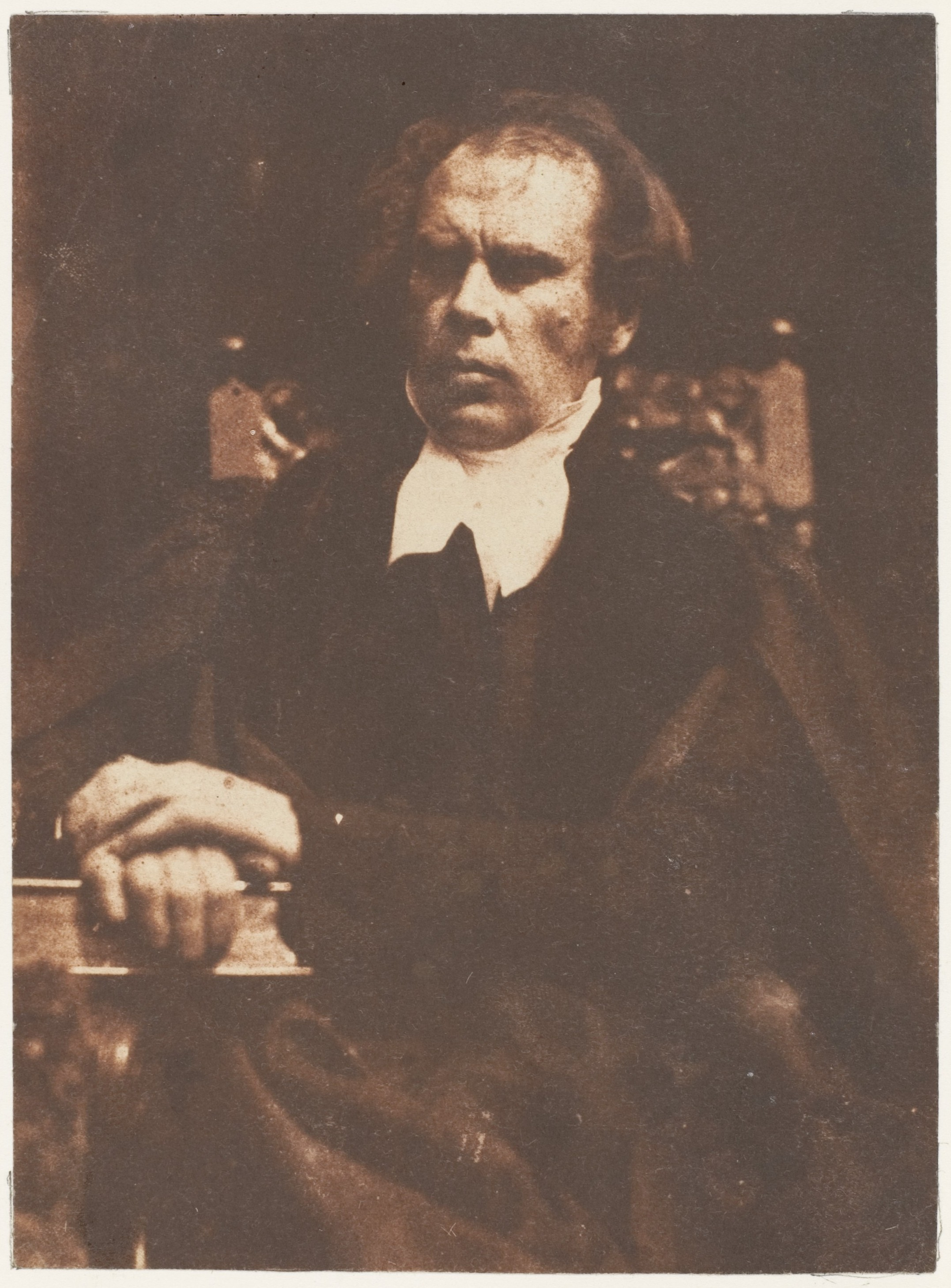 “Dr. Welsh (Retiring Moderator of Gel' Assembly 1843)” by Hill and Adamson (British, active 1843–1848), David Octavius Hill (British, Perth, Scotland 1802–1870 Edinburgh, Scotland), Robert Adamson (British, St. Andrews, Scotland 1821–1848 St. Andrews, Scotland) via The Metropolitan Museum of Art is licensed under CC0 1.0